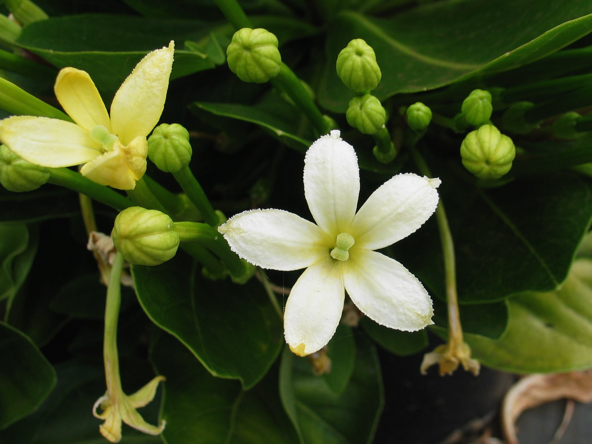 Ālula or ʻŌlulu Campanulaceae Endemic to the Hawaiian Islands (Niʻhau, extinct; Kauaʻi, extant with probably only one wild specimen remaining) Endangered Oʻahu (Cultivated) One older source (Charles Gaudichaud,1819) states that Hawaiians "used all fragrant plants, all flowers and even colored fruits" for lei making. Red or yellow were indicative of divine and chiefly rank; purple flowers and fruit, or with fragrance, were associated with divinity. Because of their long-standing place in oral tradition, the fragrant yellow flowers ālula were likely used for lei making by early Hawaiians, even though there are no written sources. Botanist Otto Degener notes: "Brighamia, called by various natives puaala, alula, ohaha, was eaten raw as a supposed remedy for consumption and various other diseases." NPH00001